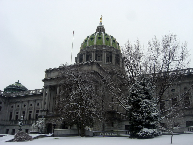 Pennsylvania State Capitol Complex, This photo shows the Pennsylvania State Capitol in Harrisburg, Pennsylvania.